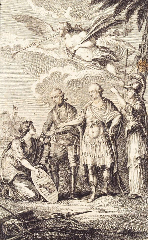 Befreites Serbien ("Liberation of Serbia"), depicting Mother Serbia freed from chains by the Habsburgs, Romanticist work by Johann Georg Mansfeld (1763–1817) regarding Habsburg-occupied Serbia (1788–92).